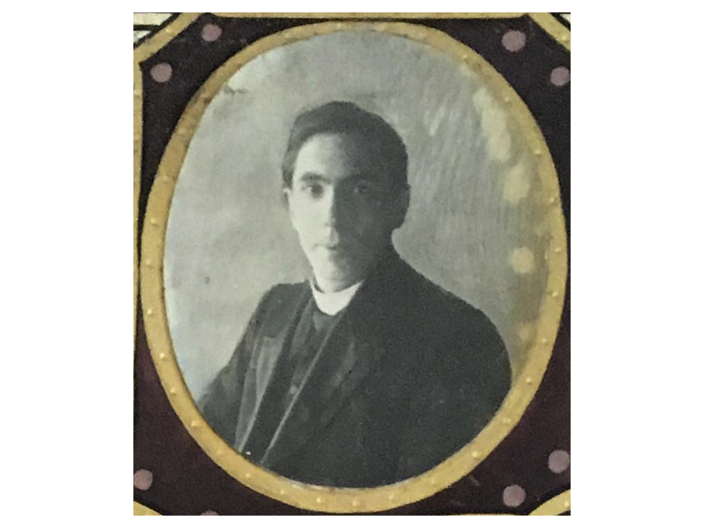 Portrait of Sidney F Wicks. Extracted from the presentation plate of a book